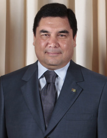 Gurbanguly Berdimuhammedov.